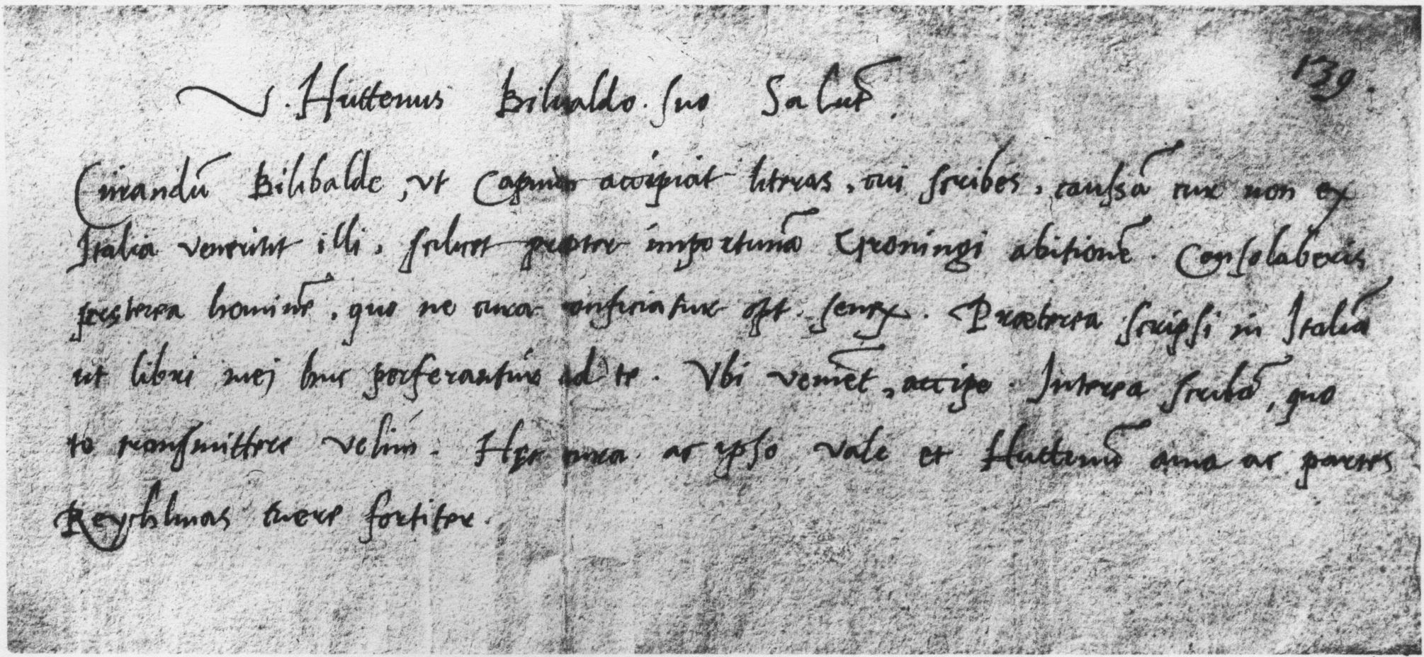 A letter of Ulrich von Hutten to Willibald Pirckheimer, written not later than 1517. Nuremberg, Germanisches Nationalmuseum.